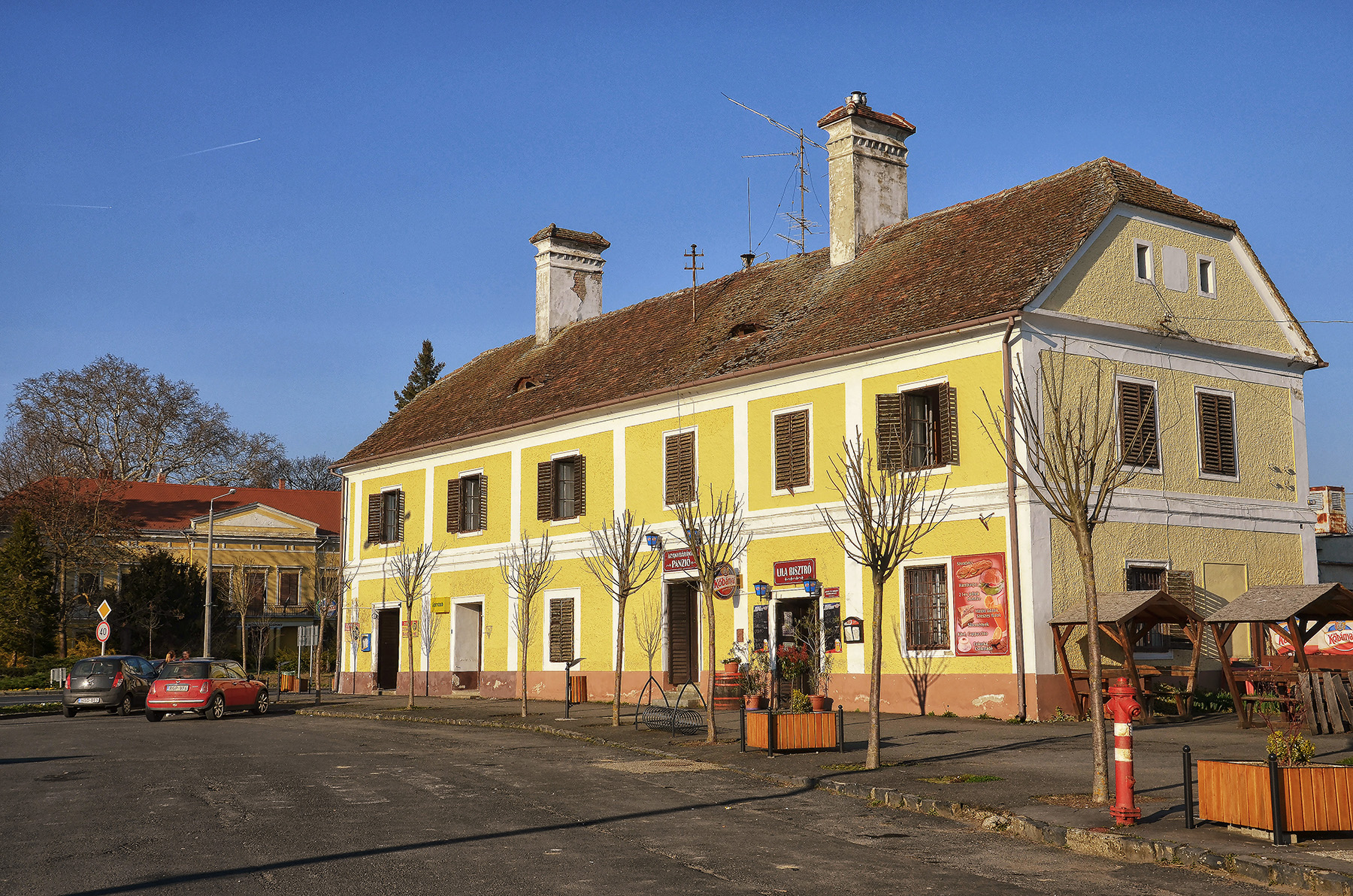 Letenye, Hungary, the Golden Sheep Inn, with the Szapáry-Andrássy Mansion in the background